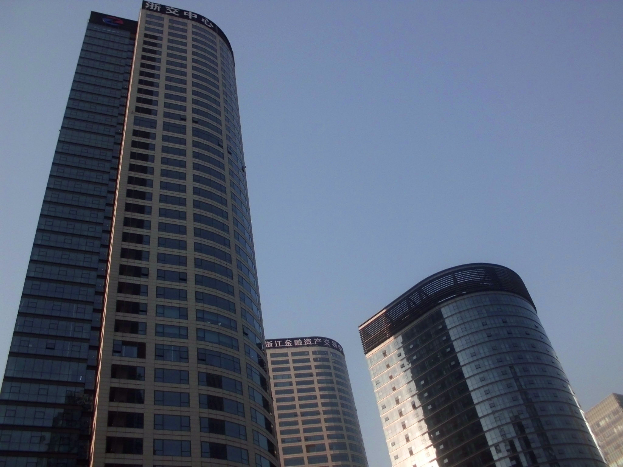 Qianjiang guoji shidai plaza